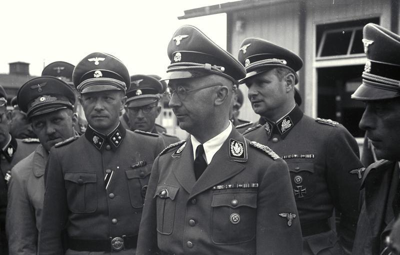 Information added by Wikimedia users.One of the many photographs taken during a visit of Heinrich Himmler to Mauthausen concentration camp, apparently in April 1941. To Himmler's immediate right is Franz Ziereis, wearing an Iron cross ribbon, four pips on his left shoulder tab, and the Death's Head symbol on his right shoulder tab and on his cap. To the right of Ziereis is August Eigruber, who is identified in this series of photographs as the only person wearing a black uniform, although in this image he appears to be wearing an overcoat over his uniform. Eigruber displays no Iron Cross ribbon, and wears no Death's Head symbols. In between Zereis and Eigruber is August Schmidhuber. To the left of Himmler are Karl Wolff and Franz Kutschera.